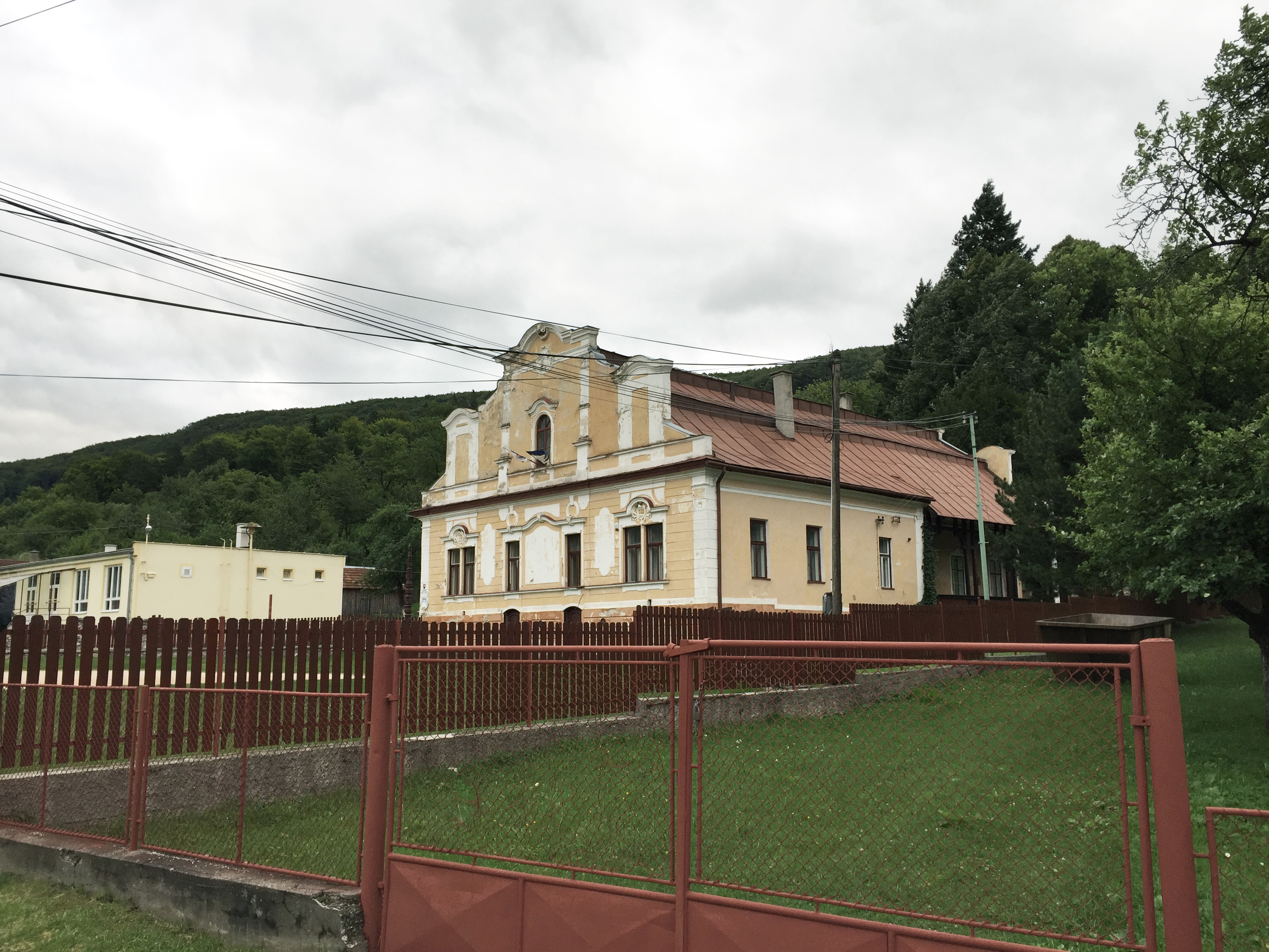 Neo-baroque Károlyi manor in Bôrka, Slovakia.